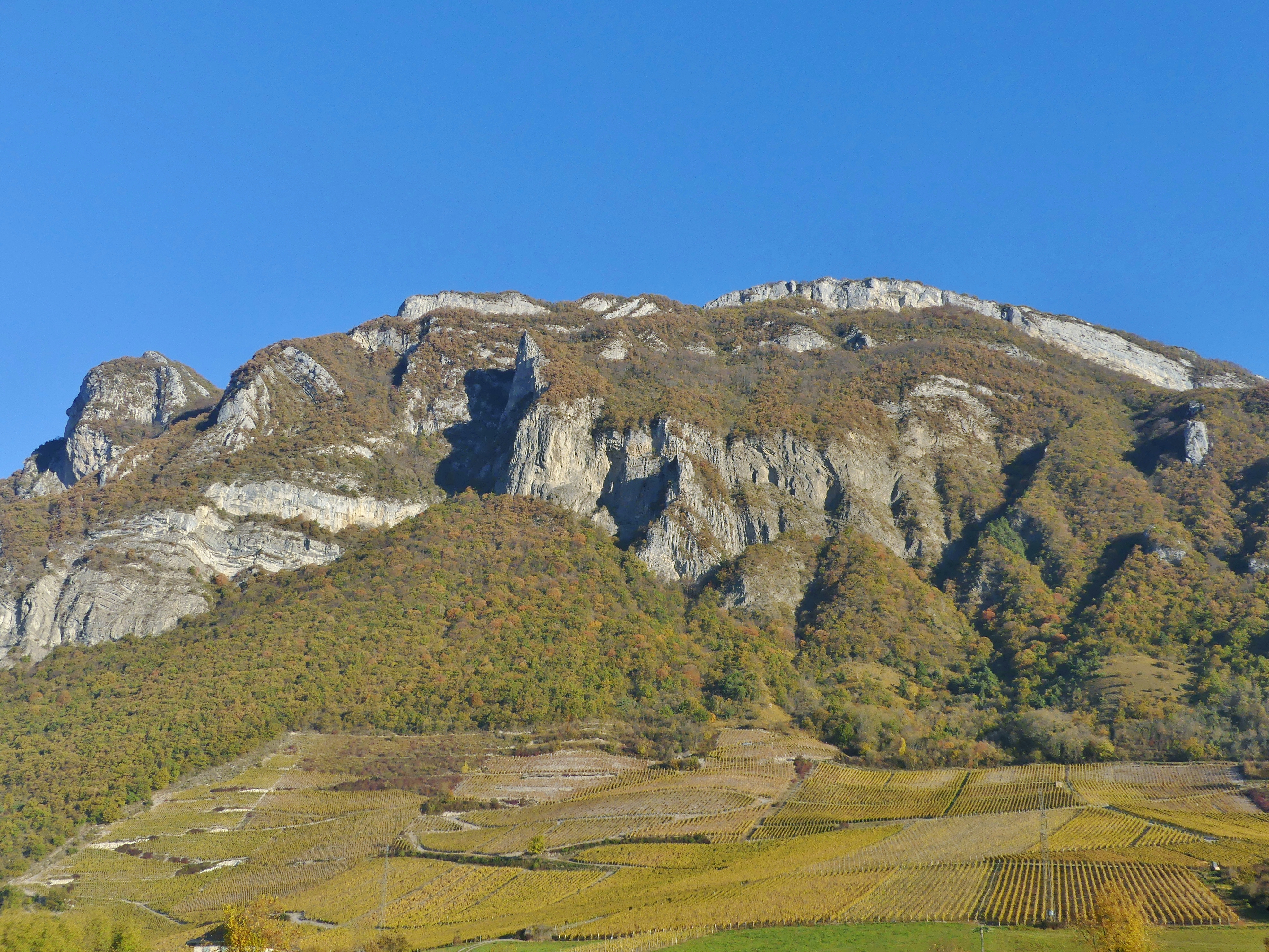 Sight, from Montmélian, of the Roc de Tormery mountain and its vineyards, in autumn at the sunrise, at the South of the Bauges mountain range, in Savoie, France.